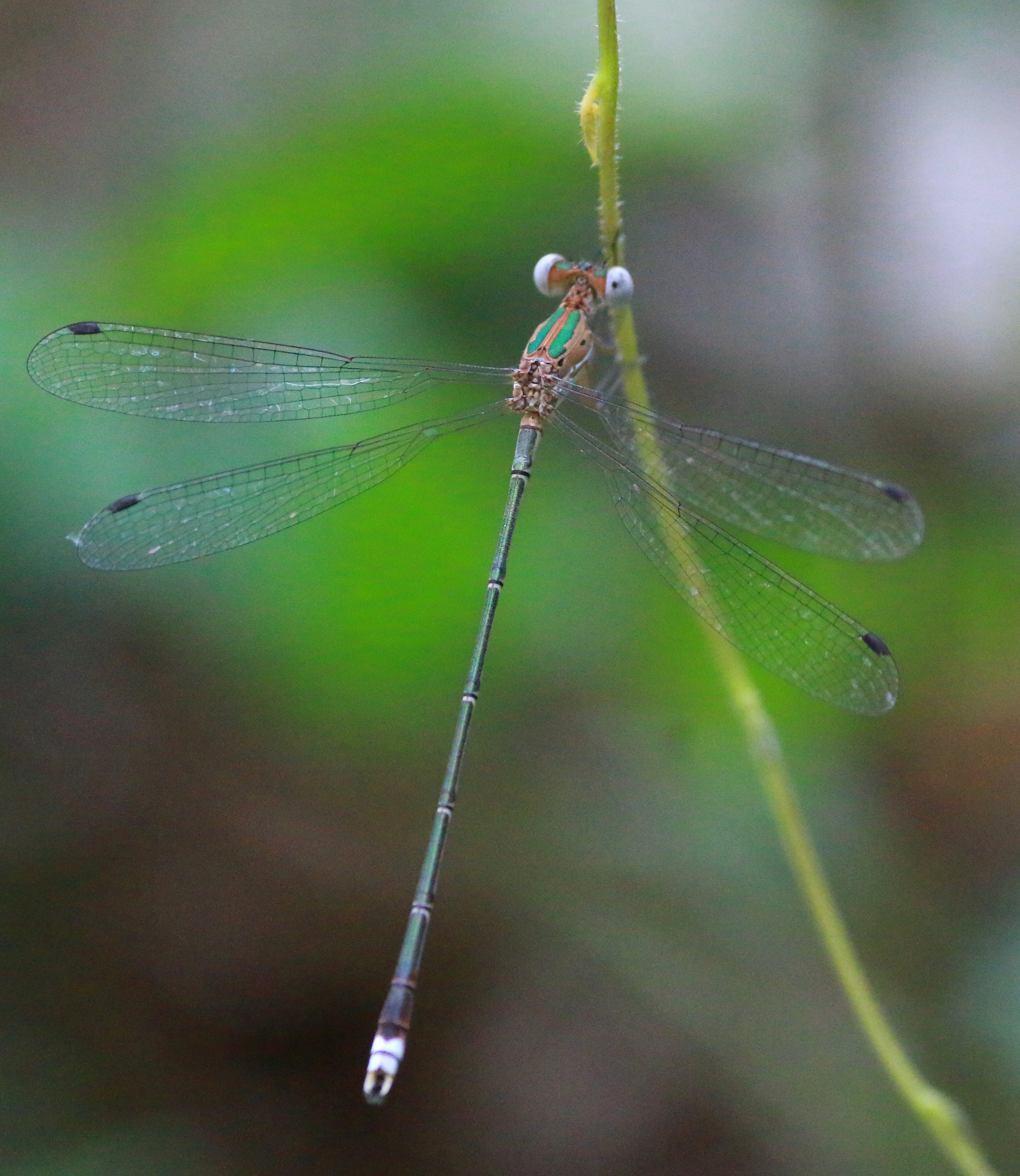 പച്ച ചേരാച്ചിറകൻ emerald spreadwing (ശാസ്ത്രീയനാമം: Lestes elatus)february 2020,Koottanad, Palakkad